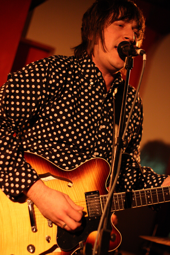 The Moons, 100 Club